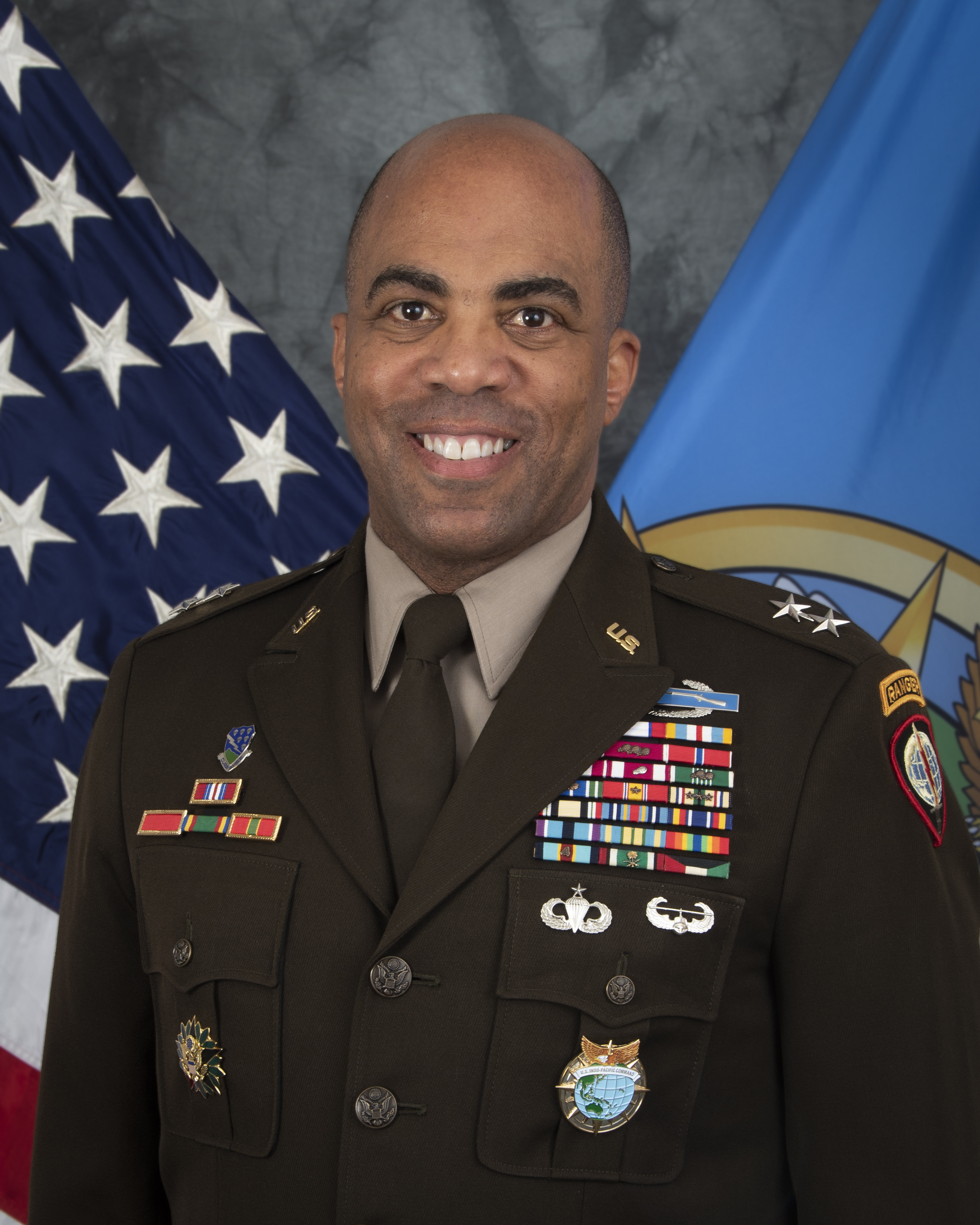 Maj. Gen. Ronald P. Clark